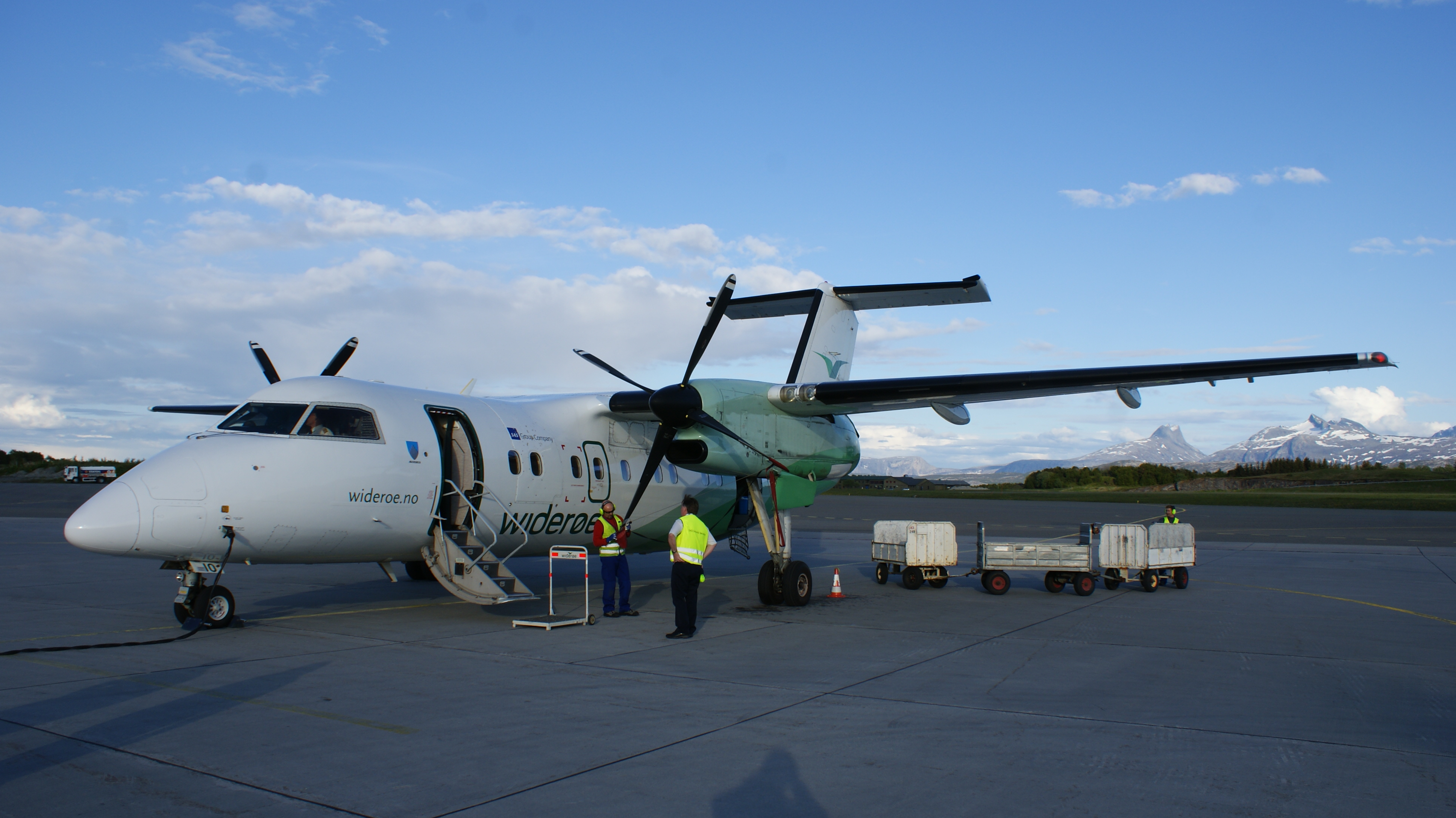 Widerøe de Havilland Canada Dash-8 103 at Bodø Airport, Salten, Nordland, Norway.